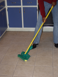 Disinfection with mop